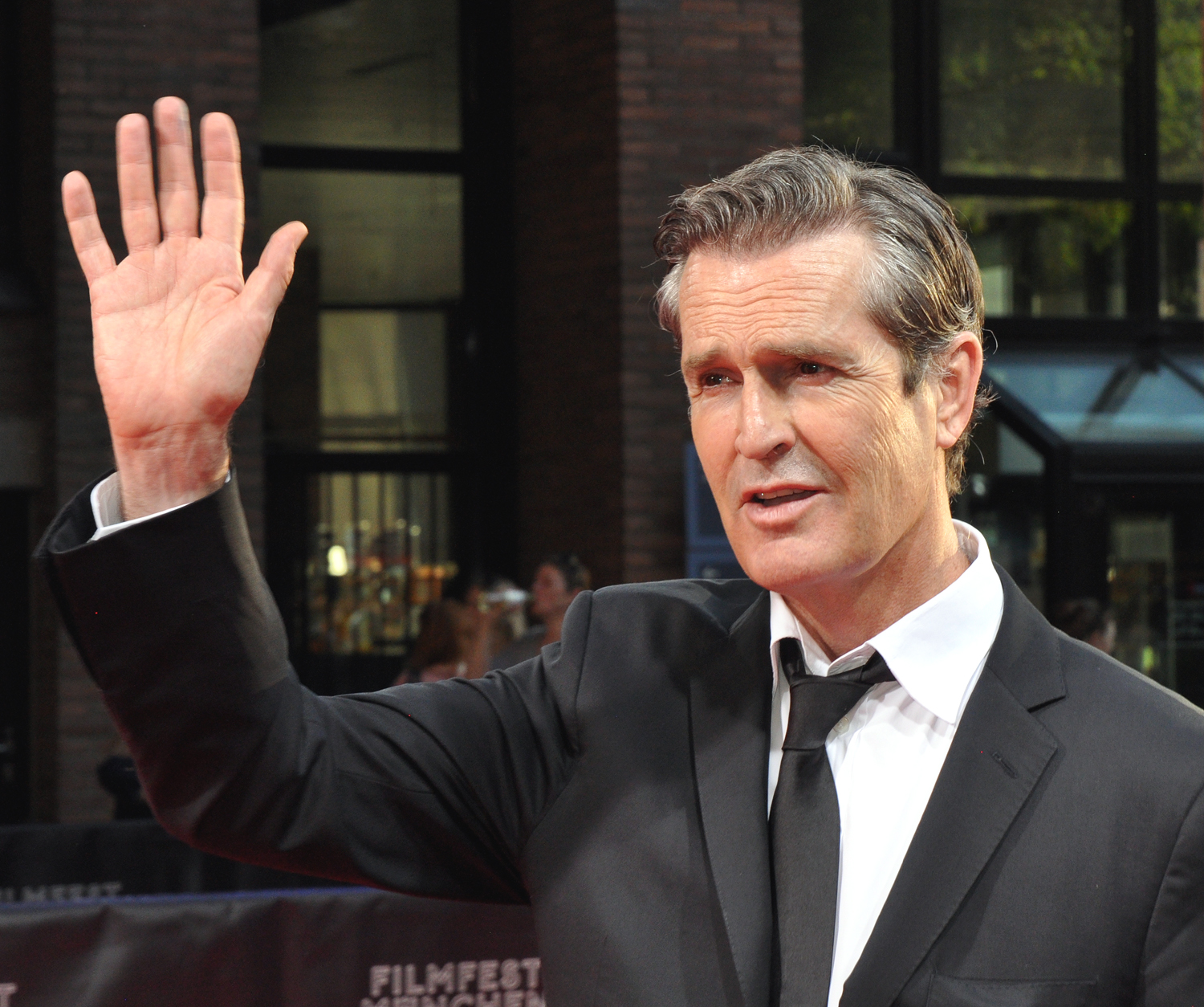 Rupert Everett at Munich Filmfestival 2015